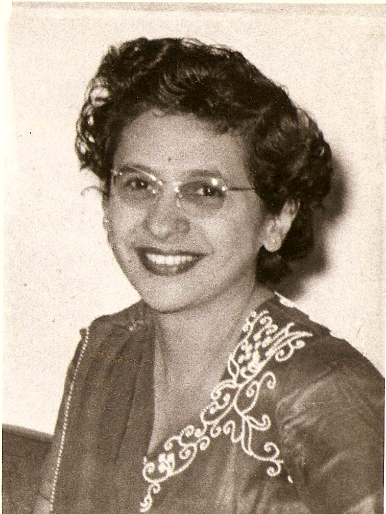 Mrs. Mistri when she was 24 years young.